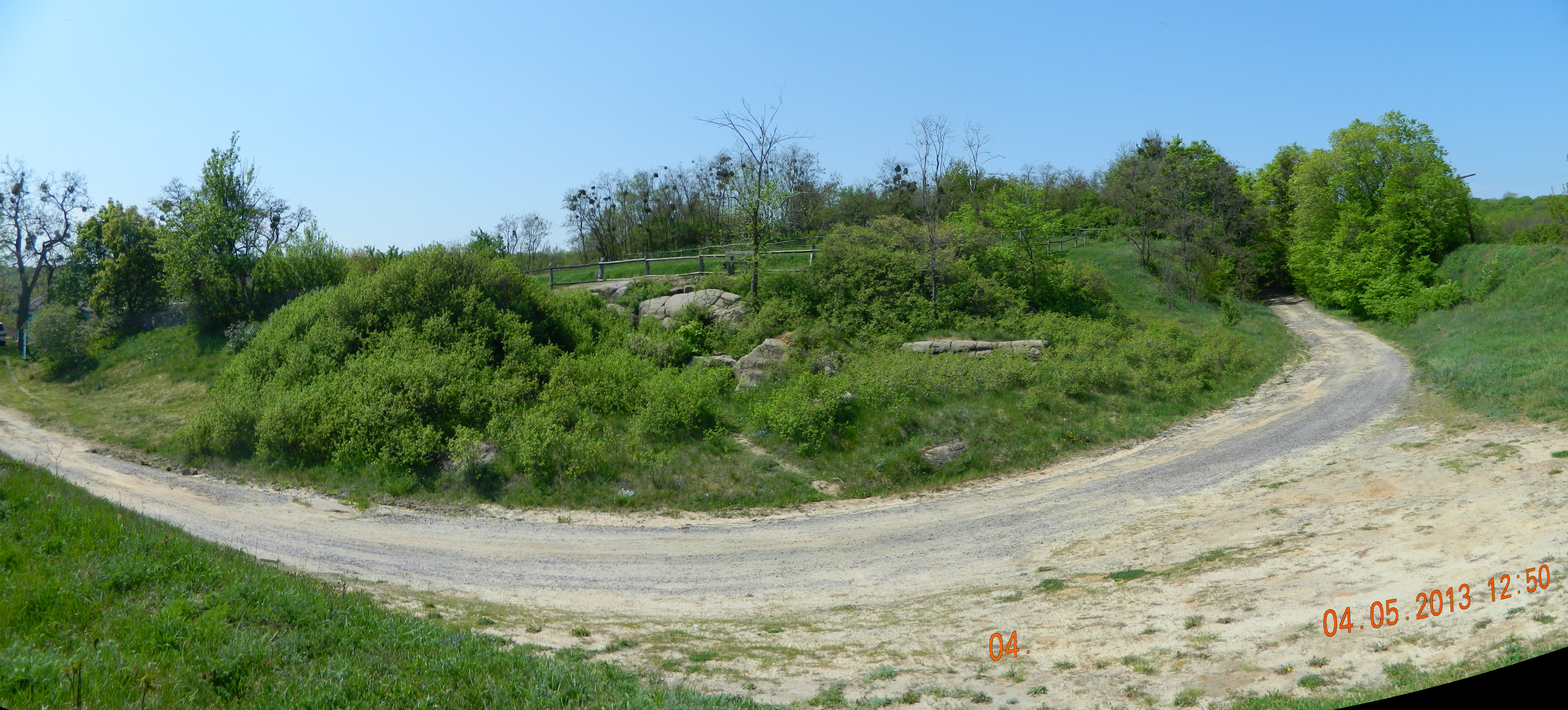 Geological nature monument "Sandstone outcrop", village Brusiya. Regional Landscape Park "Dykanka." Ukraine